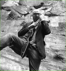 Image of Andrew Liles